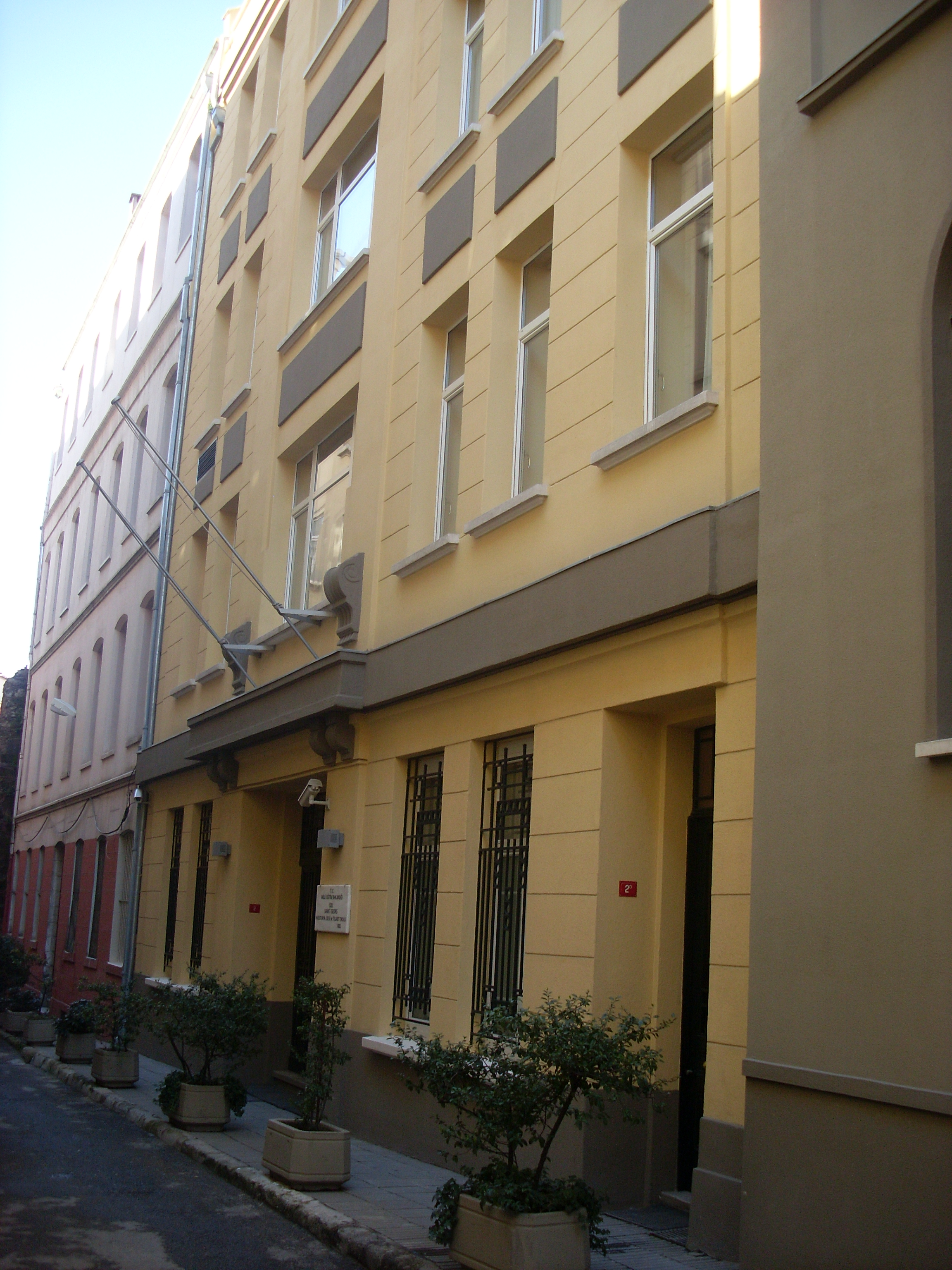 İstanbul - St. George's Austrian High School r2 - Mar 2013